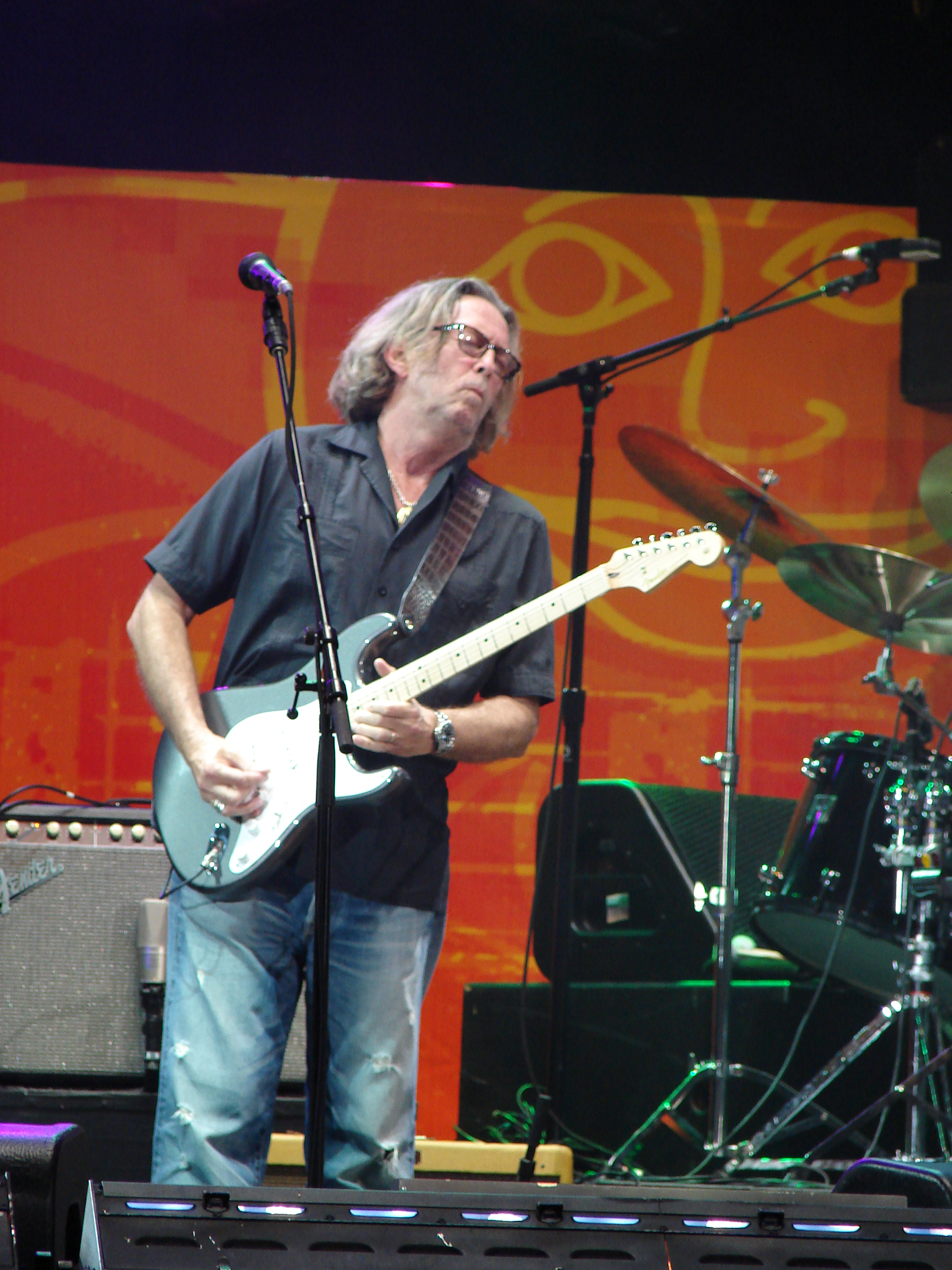 Still the best